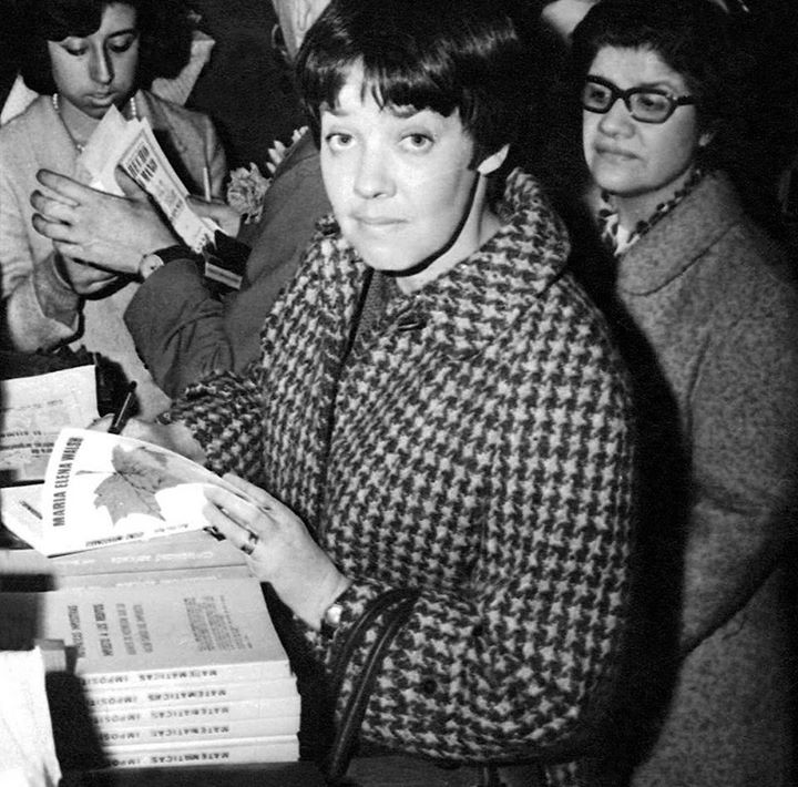 Argentine writer María Elena Walsh signing copies of her books at "El Ateneo" bookstore.